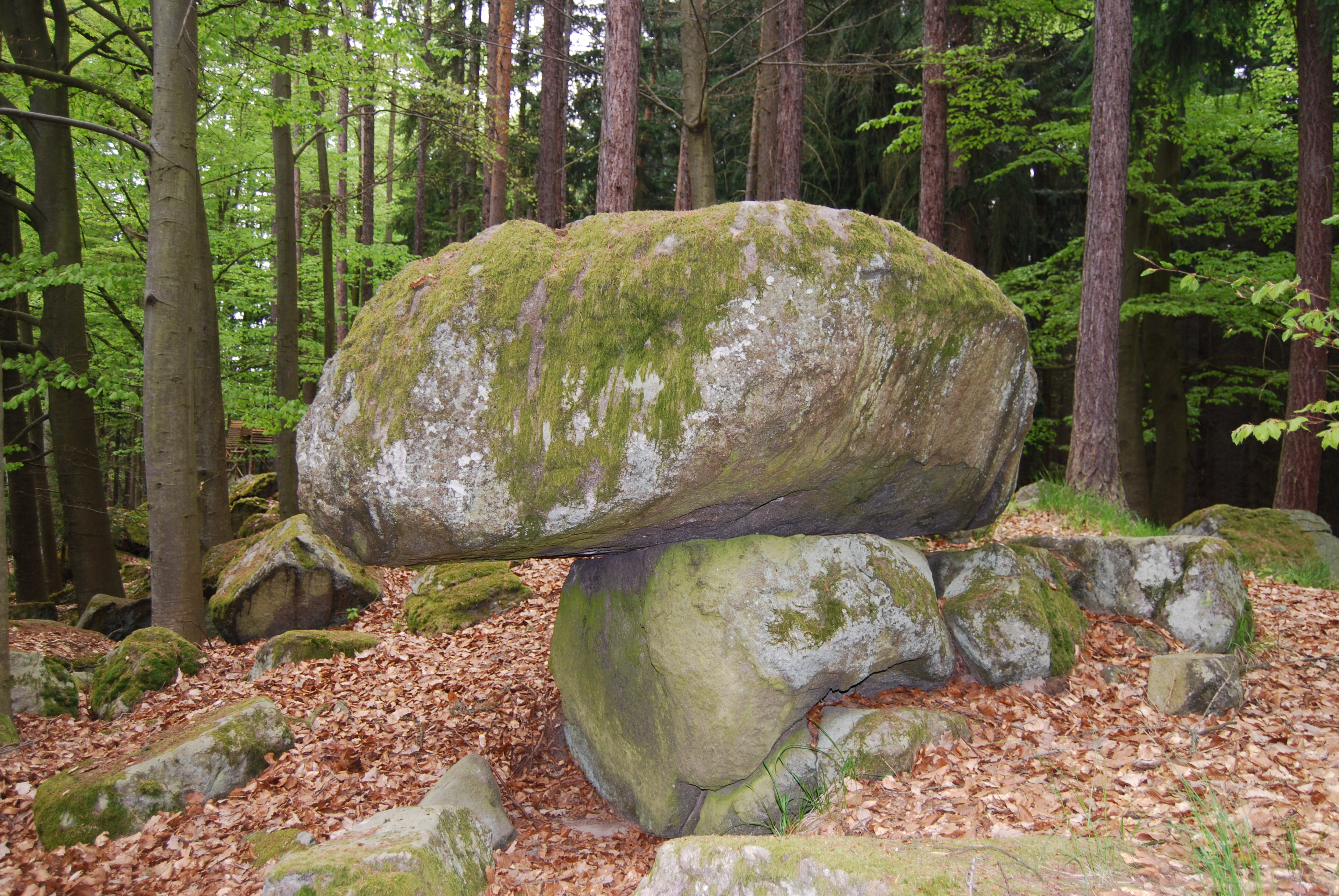 Balance rock called Malý Kosatín near Boudy village in Písek District, Czech Republic